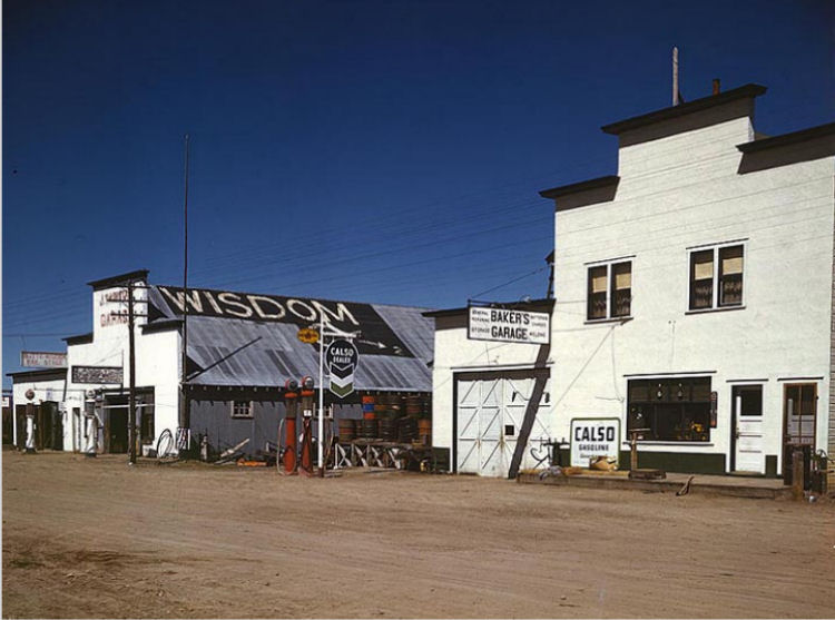 Wisdom, Montana in April 1942. Reproduction from color slide. Photographed by John Vachon.